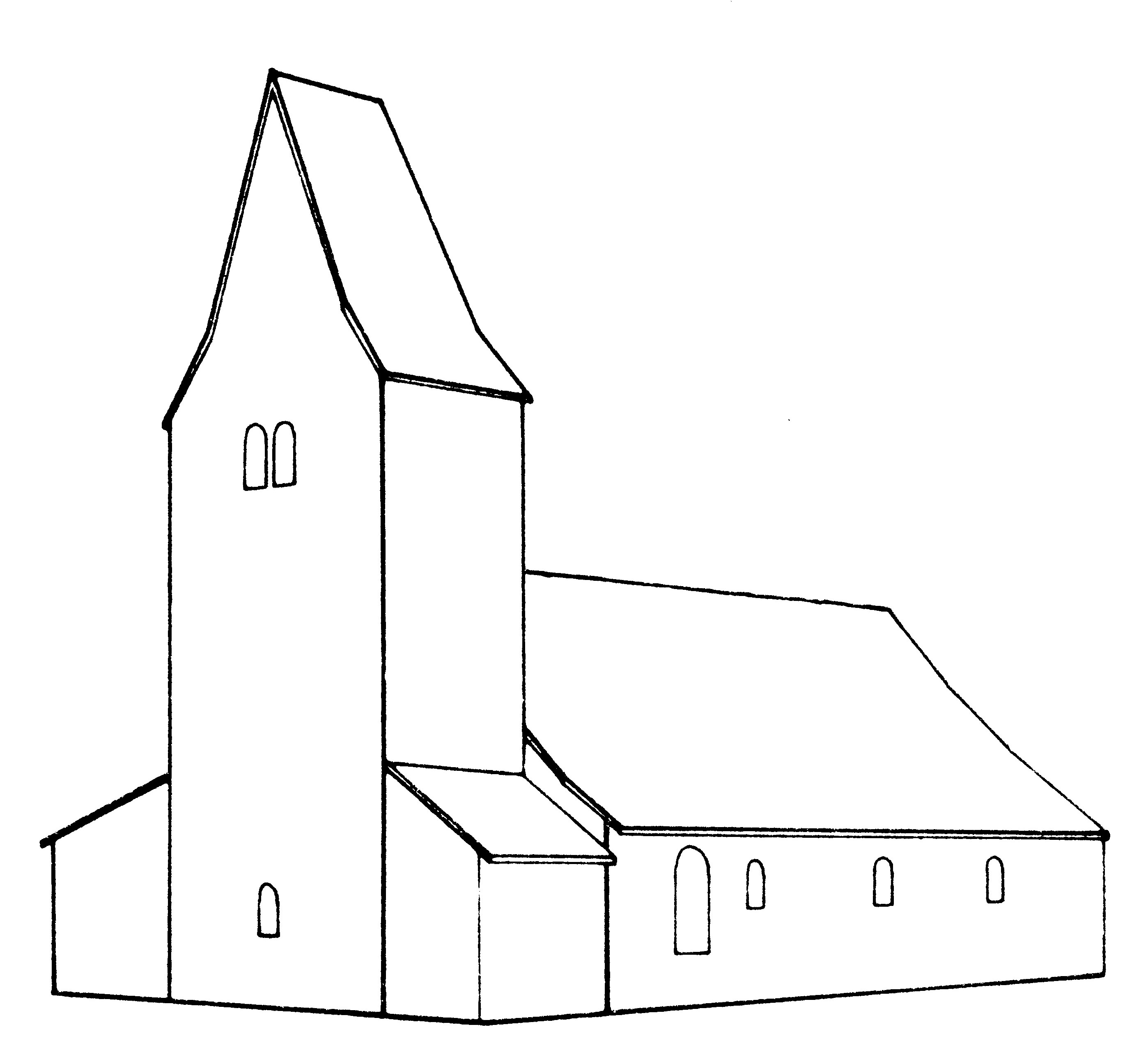 Third stage of construction of the now Reformed Church in Betschwanden, Glarus, Switzerland 1486/1487